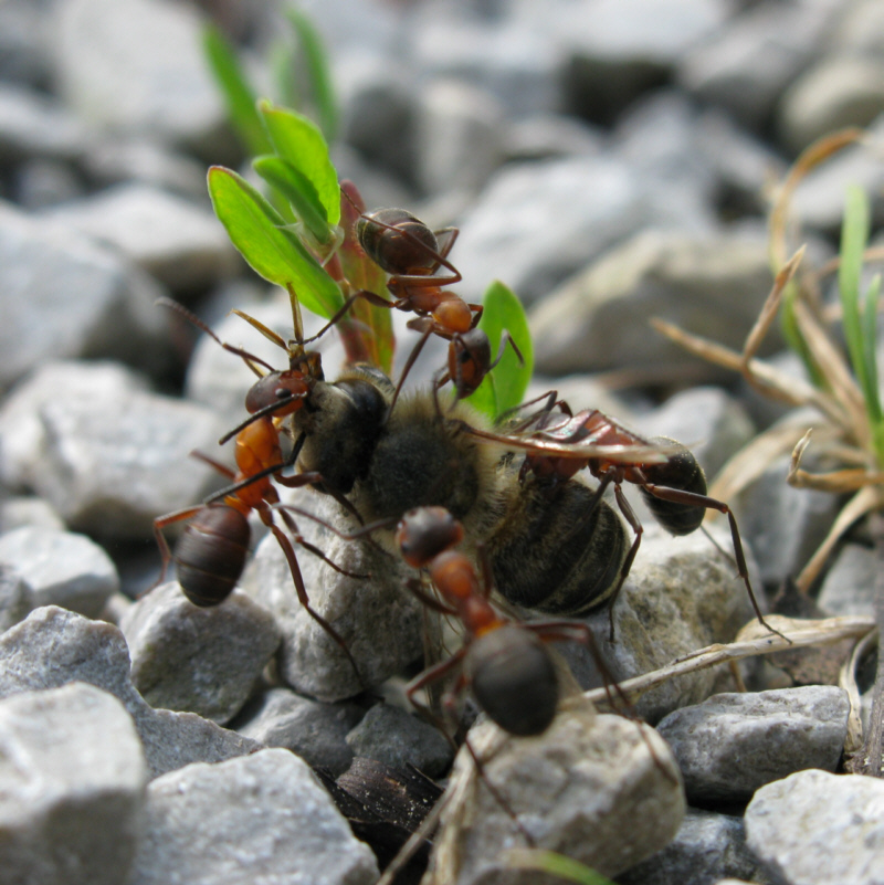 Southern wood ants with prey, a dead bee.